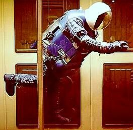 Integrated Maneuvering Life Support System